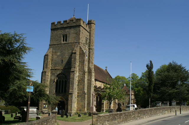 St. Mary's Church, Battle Reputed to be within an arrow's flight of where King Harold fell. The blue sign on the left records that the town is twinned with St. Valery-sur-Somme, the French port from which William the Conqueror launched his invasion.